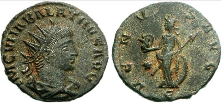 Vabalathus. Usurper, AD 272. Antoninianus 3.82 g. Antioch. March-May AD 272. IM C VHABALATHVS AVG, radiate, draped, and cuirassed bust right. VENVS AVG, Venus standing left, holding helmet in right hand, transverse spear in left, leaning on shield behind her; star in left field. RIC V 5 corr. (bust type); BN 1266; MIR 47, 361a.